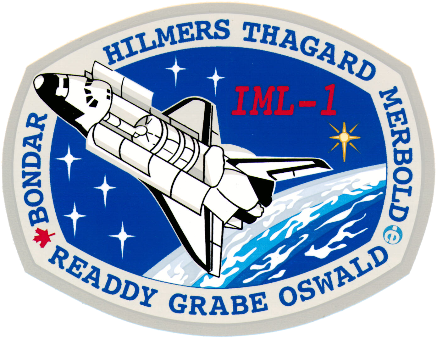 STS-42 Mission Insignia Designed by the crewmembers, the STS- 42 Intemational Microgravity Lab- 1 insignia depicts the orbiter with the Spacelab module aboard. The spacecraft is oriented in a quiescent, tail-to-Earth, gravity-gradient attitude to best support the various microgravity payloads and experiments. The international composition of the crew is depicted by symbols representing Canada and the European Space Agency. The number 42 is represented by six white stars --- four on one side of the orbiter and two on the other. The single gold star above Earth's horizon honors the memory of astronaut Manley L. (Sonny) Carter, who was killed earlier this year in a commuter plane crash. A crew spokesperson stated that Carter ...was our crewmate, colleague and friend. Blue letters set against white give the surnames of the five astronauts and two payload specialists for the flight.